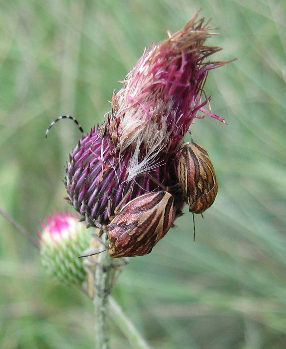 The shield-backed bug Odontotarsus purpureolineatus, family Scutelleridae, from Istria/Croatia.